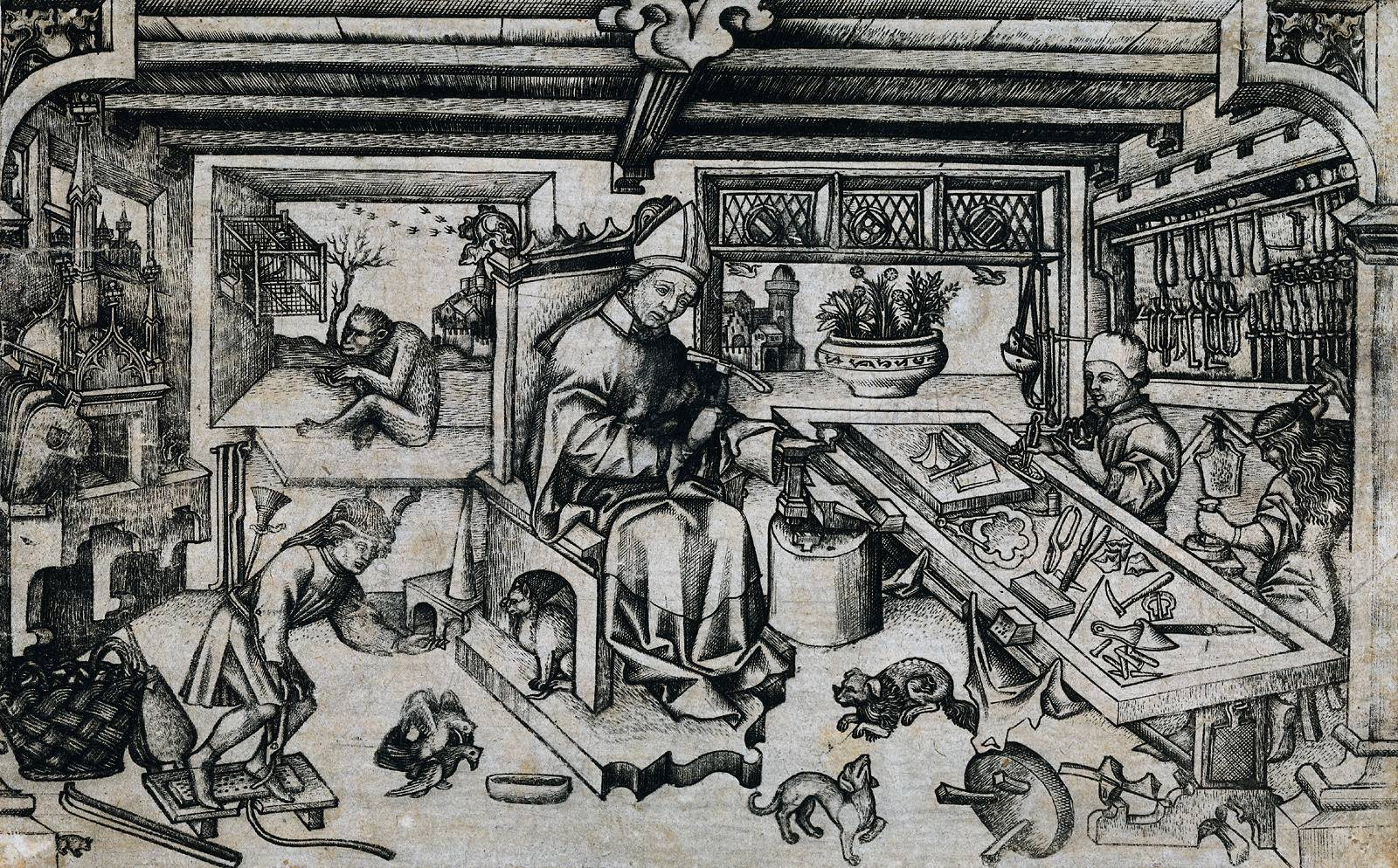 Saint Eligius in his workshop